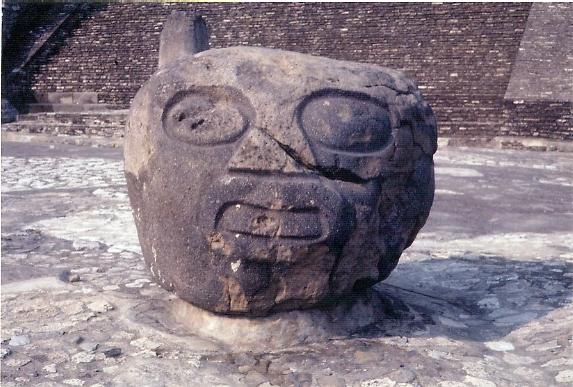 Basalt head in Cholula (Mesoamerican site), Mexico